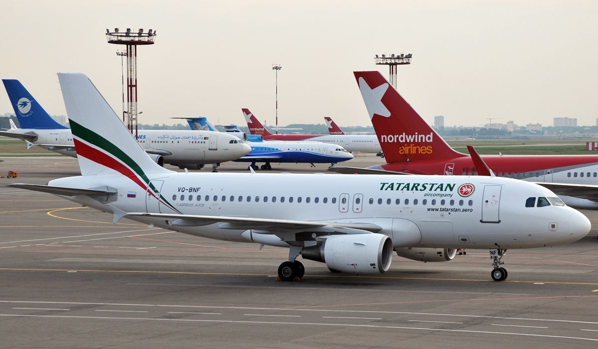 Tatarstan Airlines Airbus A319